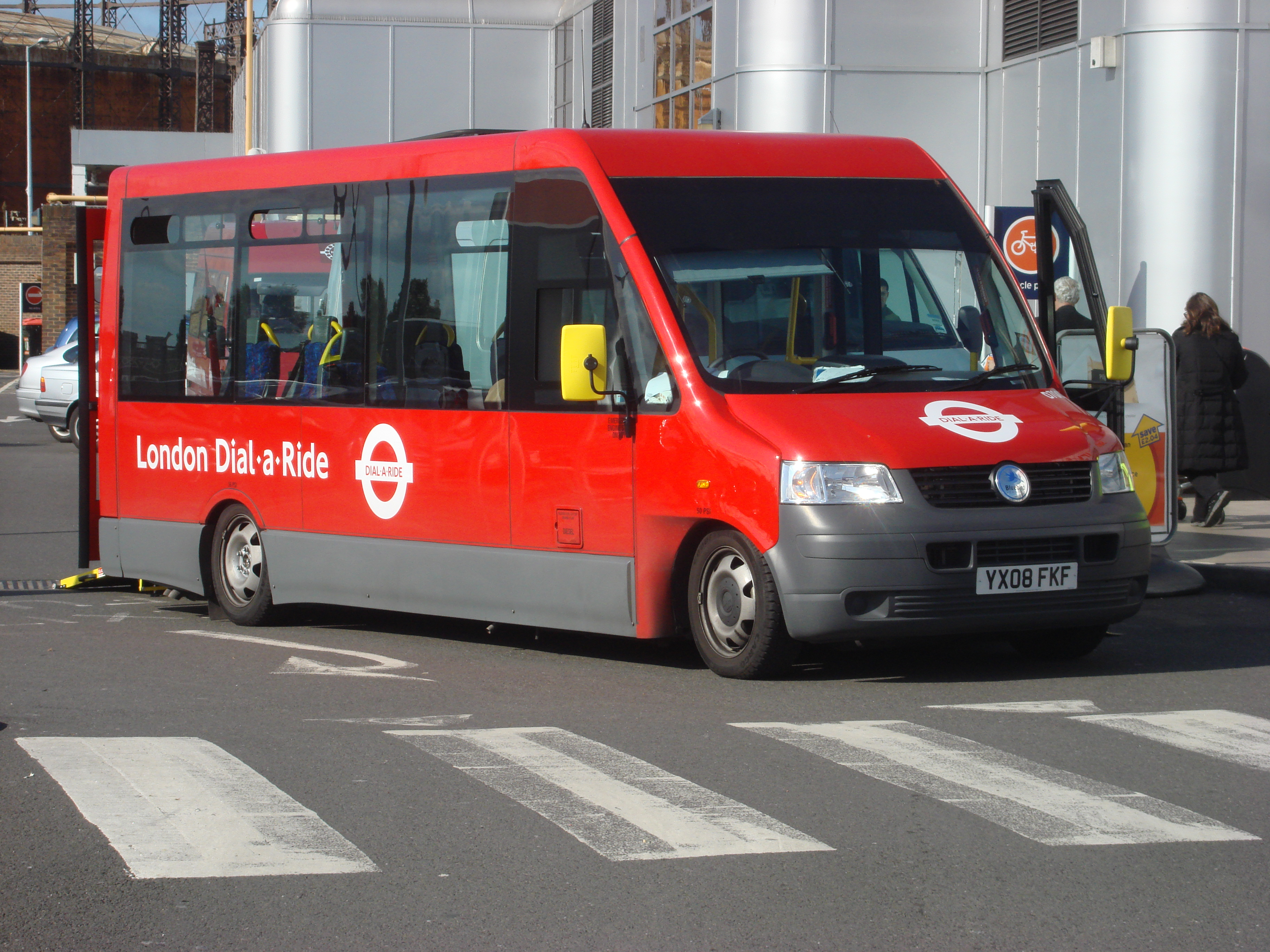 London Dial-a-Ride bus at Ladbroke Grove Sainsbury's. It is a Volkswagen Bluebird Tucana, and was new in February 2008. It is YX08 FKF, fleet number D7003.